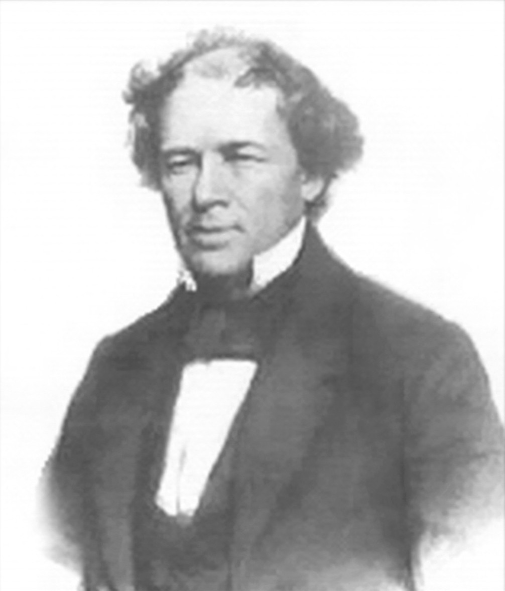 Matthew Fontaine Maury